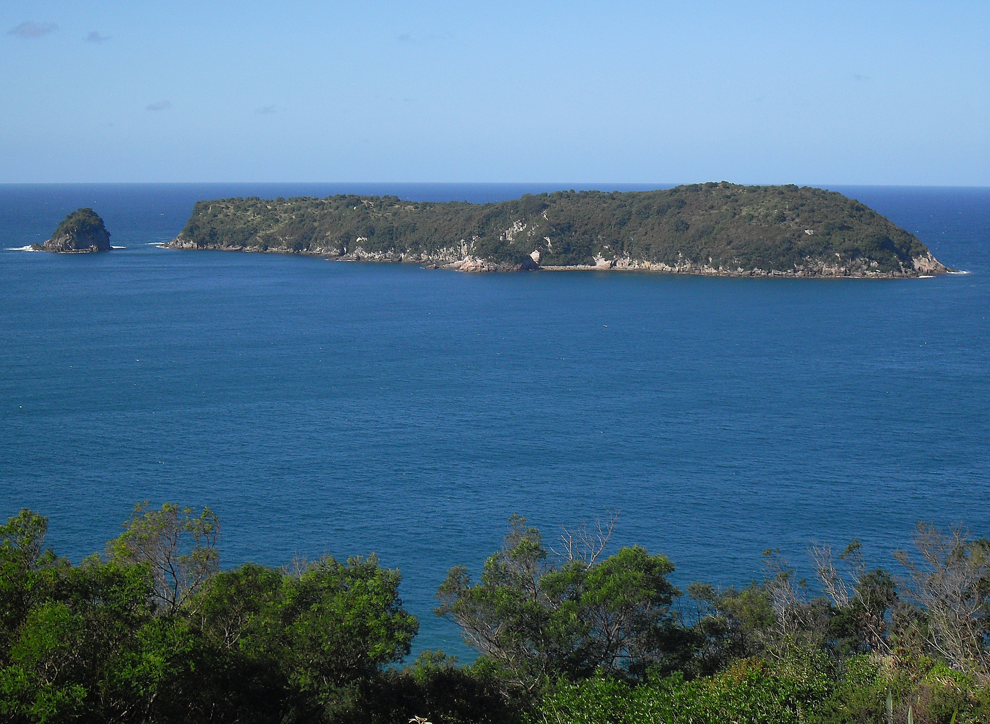 The island of Mahurangi is on the edge of the Te Whanganui-A-Hei (Cathedral Cove) Marine Reserve. As viewed from the Cathedral Cove Walk.